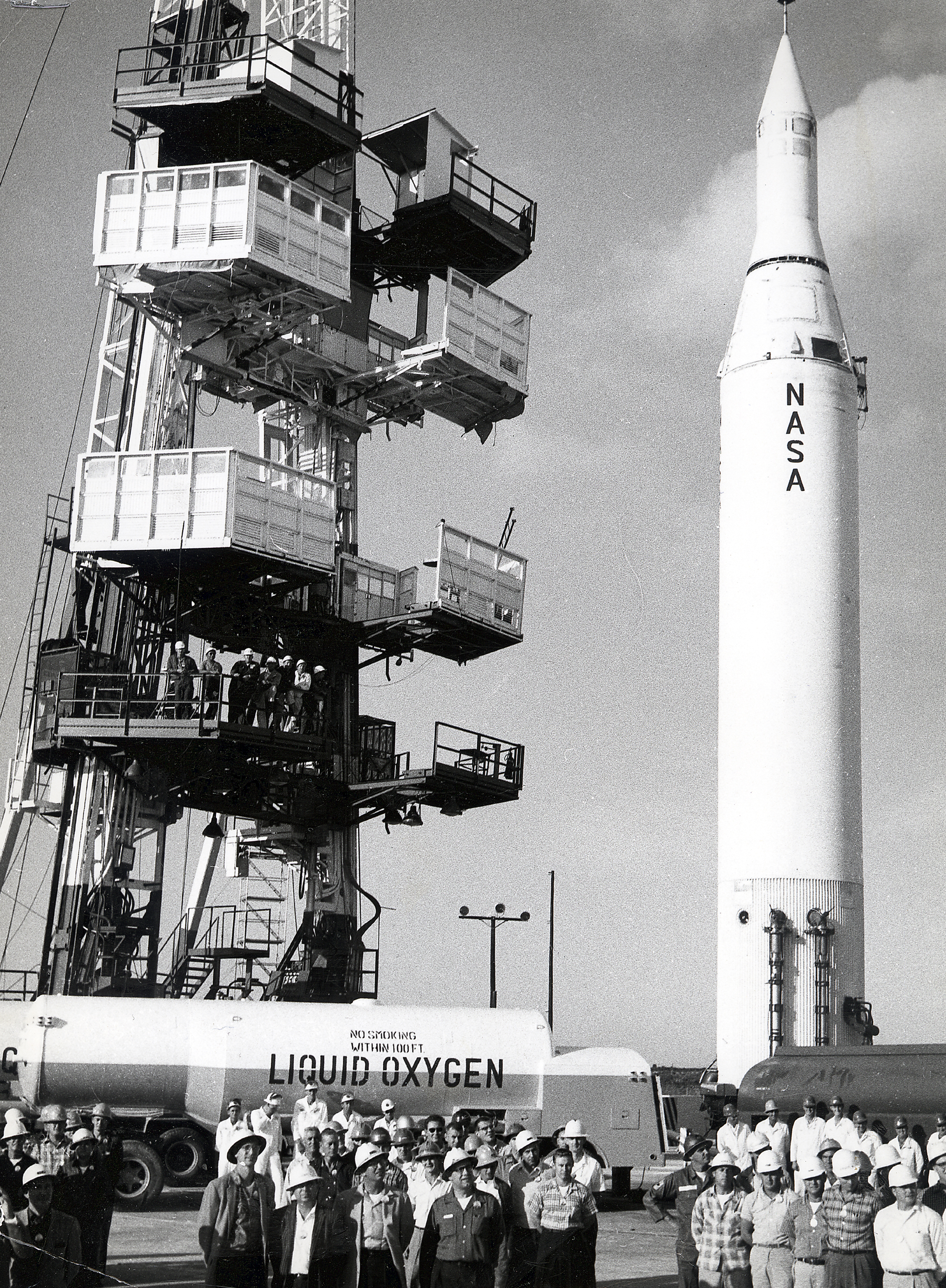 The modified Jupiter C (sometimes called Juno I), used to launch Explorer I, had minimum payload lifting capabilities. Explorer I weighed slightly less than 31 pounds. Juno II was part of America's effort to increase payload lifting capabilities. Among other achievements, the vehicle successfully launched a Pioneer IV satellite on March 3, 1959, and an Explorer VII satellite on October 13, 1959. Responsibility for Juno II passed from the Army to the Marshall Space Flight Center when the Center was activated on July 1, 1960. On November 3, 1960, a Juno II sent Explorer VIII into a 1,000-mile deep orbit within the ionosphere.